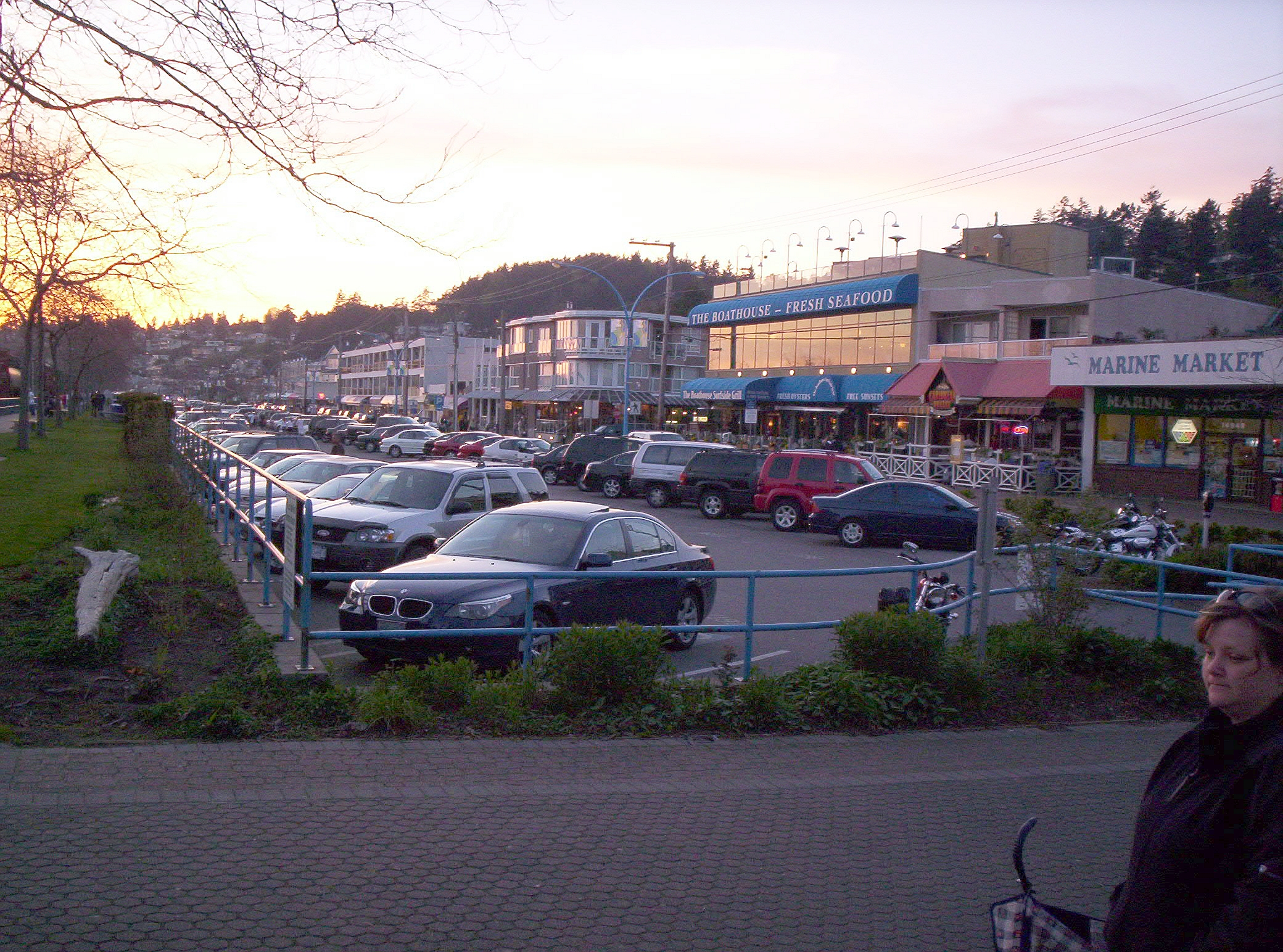 Buildings across from West Beach on Marine Drive, White Rock, British Columbia.